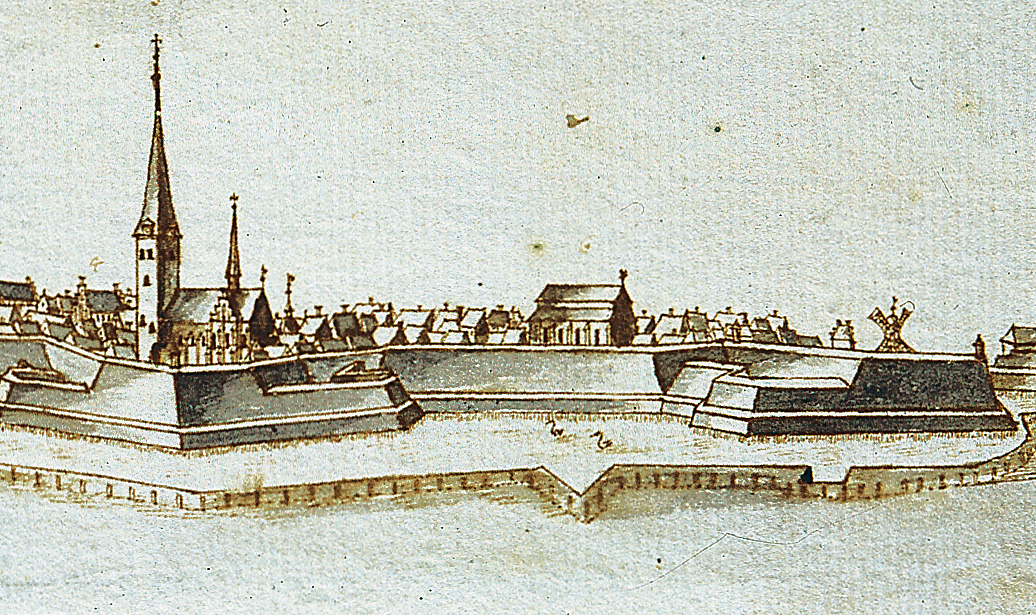 Part of Malmö from 1706.